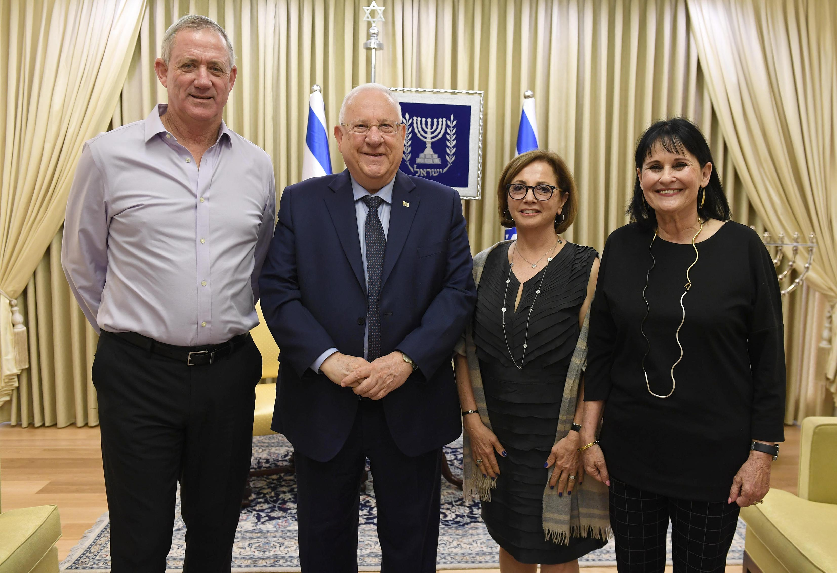 The President of Israel, Reuven Rivlin, and his wife hosting an event commemorating 20 years of activity for NATAL Israel - The trauma association established to treat victims of terror and war, March 21, 2018. Photo Credit: Mark Neyman / GPO.